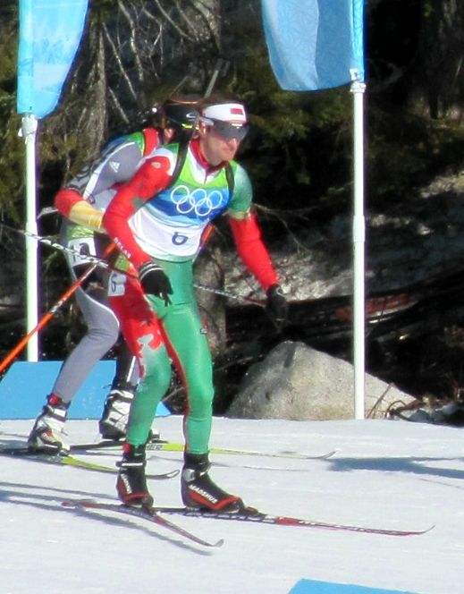 Sergey Novikov at the 2010 Winter Olympic Games - Men's Biathlon 15 km Mass Start, Whistler Olympic Park in British Columbia, Canada.